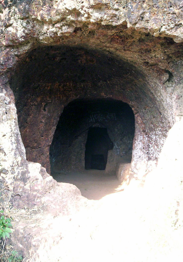 Parashar caves in Panhala, Maharashtra, India